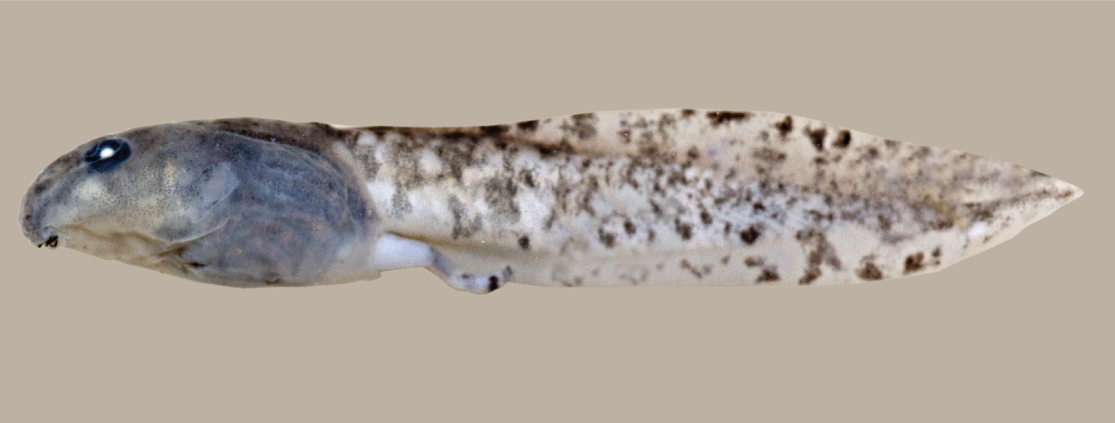 Tadpole of Limnonectes larvaepartus.